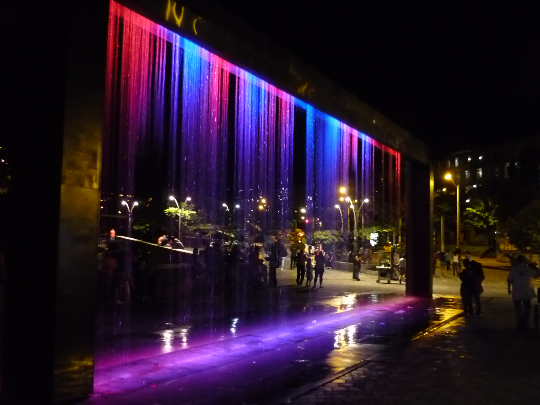 Ubicado en el barrio Boston de Medellín, aloja también este parque el museo Casa de la Memoria.